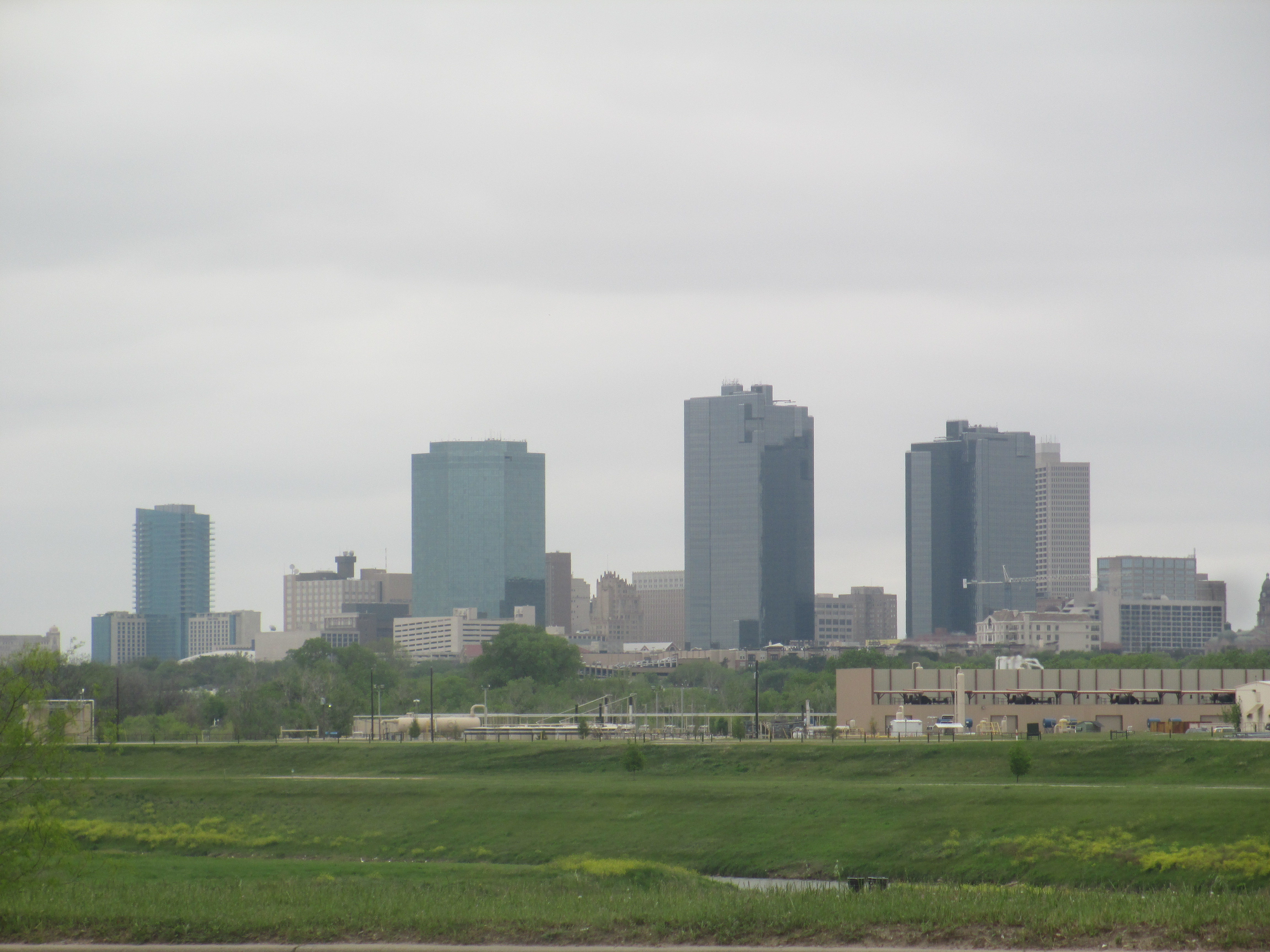 I took photo of Fort Worth, TX, skyline from I-35W with Canon camera, April 7, 2013. Billy Hathorn (talk) 16:45, 12 April 2013 (UTC)